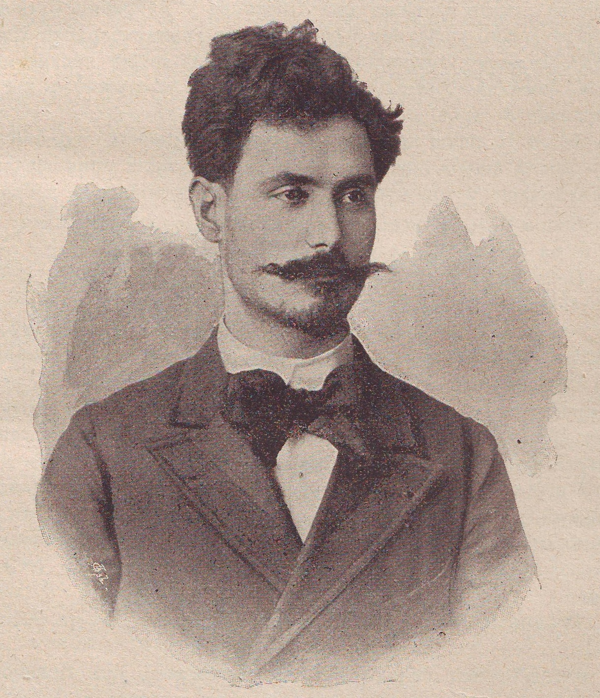 A photograph of Đorđe Đoka Jovanović (1861-1953), Serbian sculptor and academician of the Serbian Academy of Sciences and Arts. Taken from the 1898 edition of the calendar Srbobran. Srpski (latinica): Fotografija Đorđa Đoke Jovanovića (1861-1953), srpskog vajara i akademika Srpske akademije nauka i umetnosti. Preuzeto iz kalendara Srbobran za 1898. godinu.